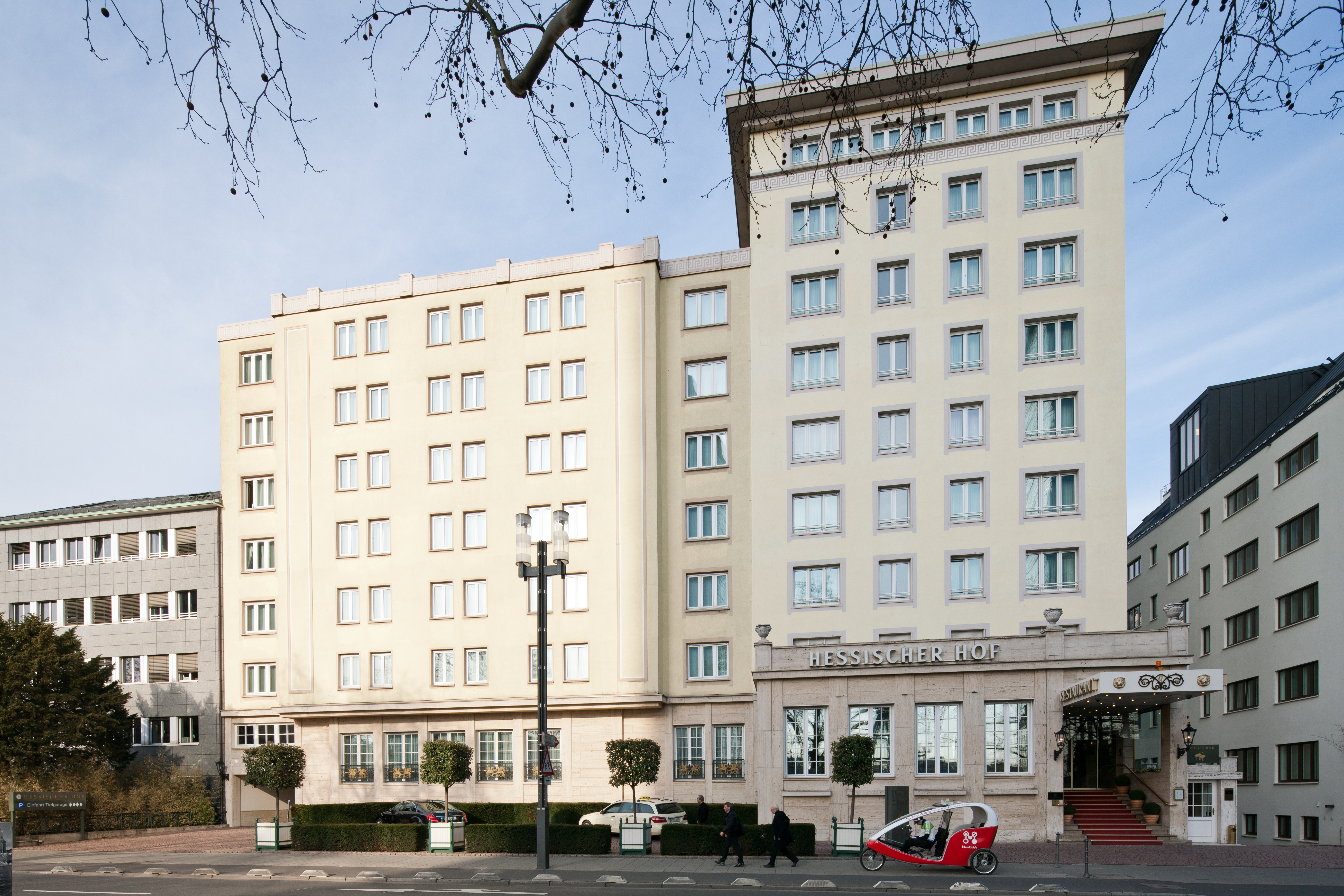 Frankfurt on the Main: Hessischer Hof (Hessian Court) as seen from the southwest